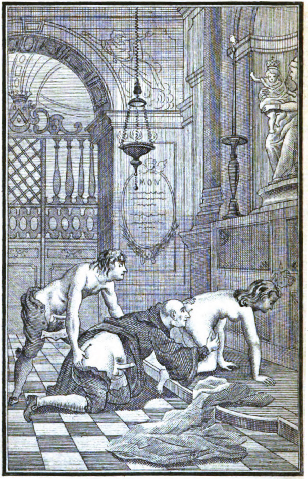 The novel Justine, or The Misfortunes of Virtue: Book adorned with a frontispiece and 40 carefully-engraved subjects. Volume 2.